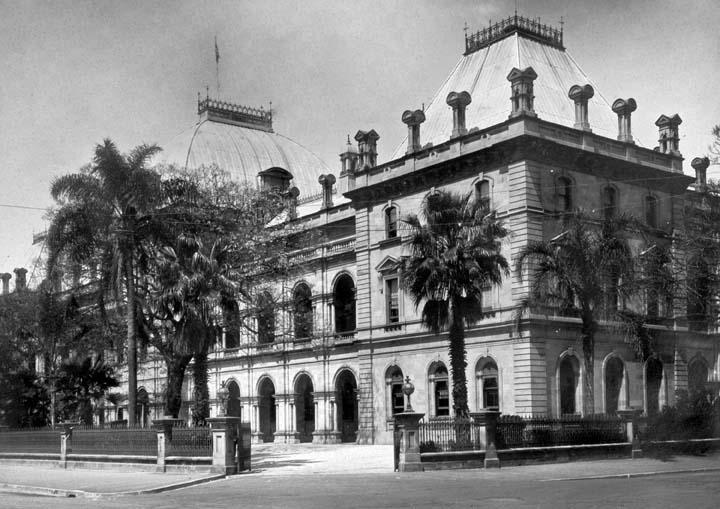 Parliament House, Alice Street, Brisbane. (Brisbane CBD)